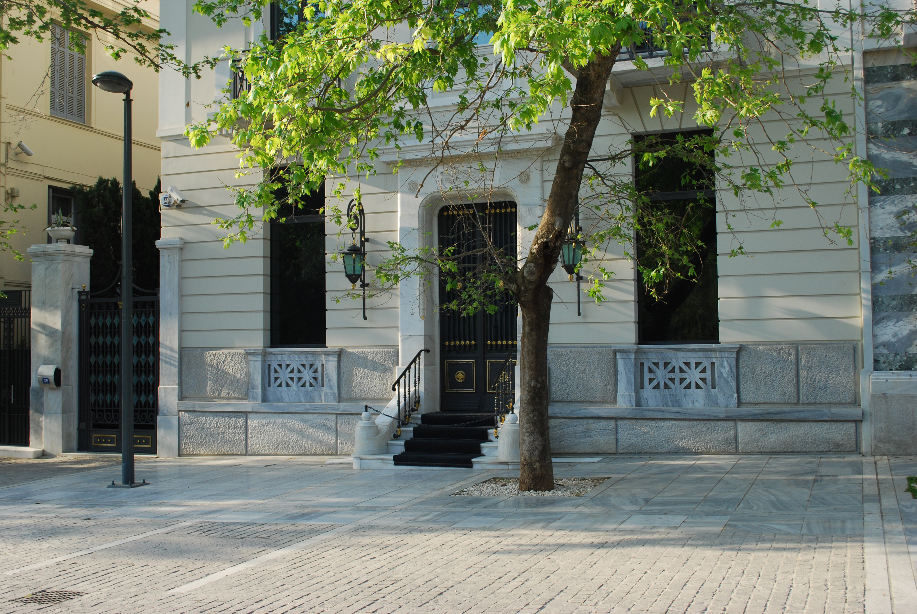 Plaka (Athens) : Odos Dionysiou Areopagitou / Dionysius the Areopagite Street.